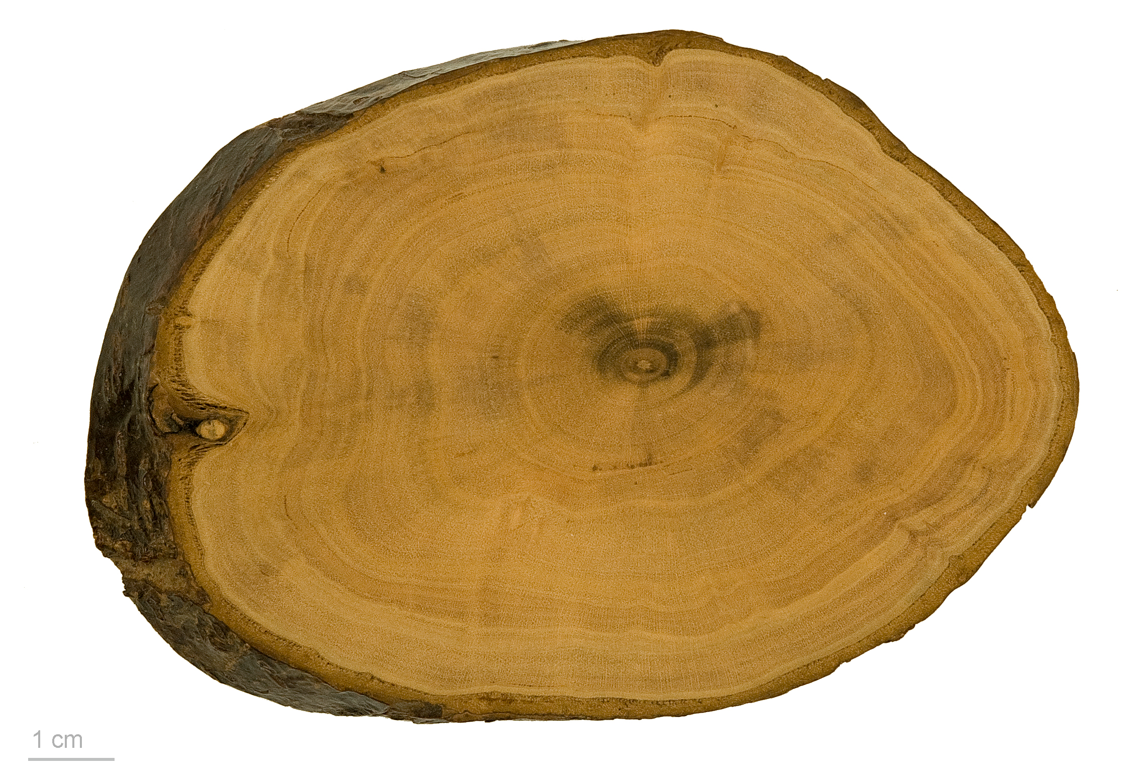 Chinese plum, Japanese apricot , wood